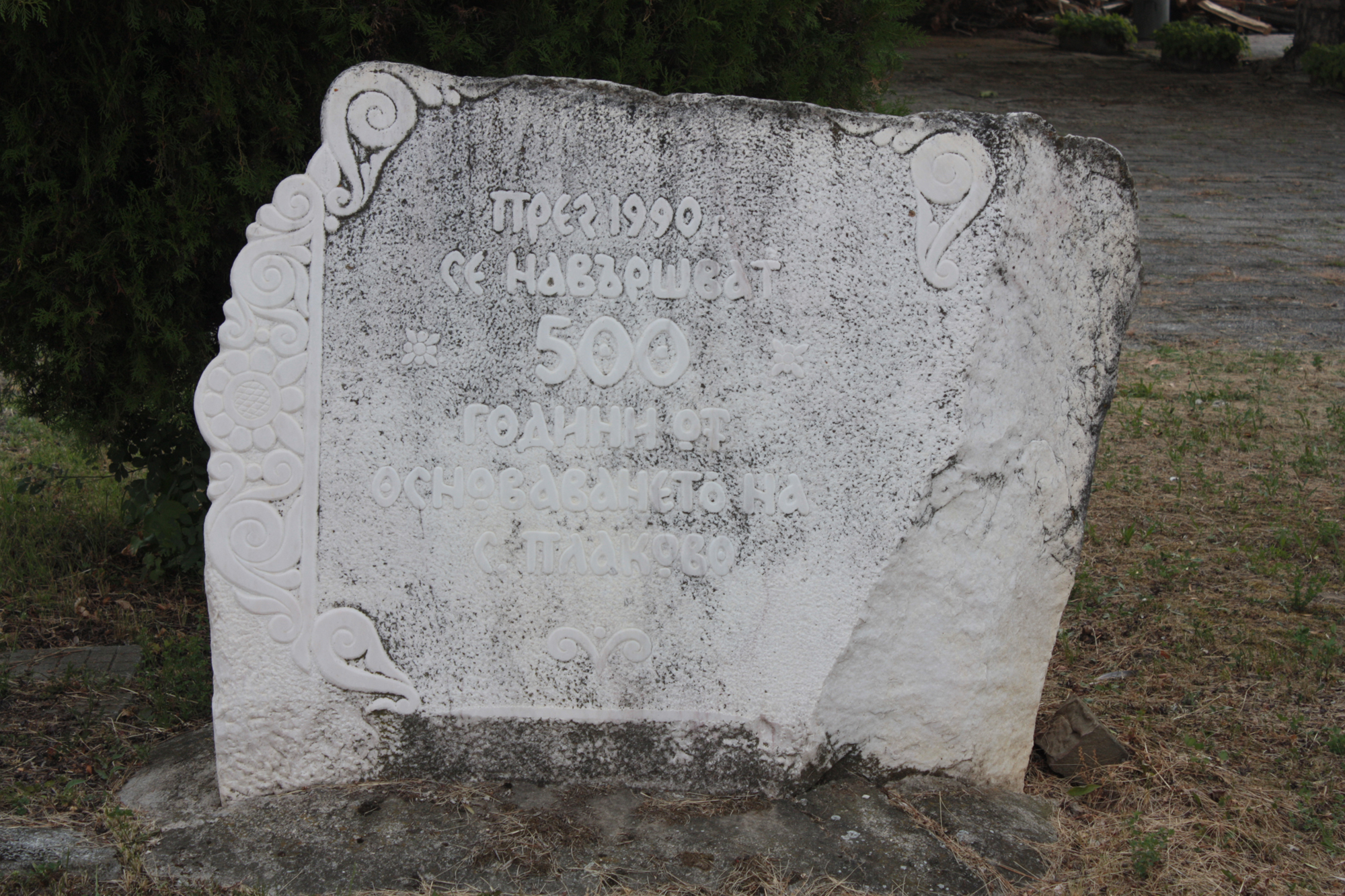 A memorial stele og the 500th aniversary from Plakovo foundation